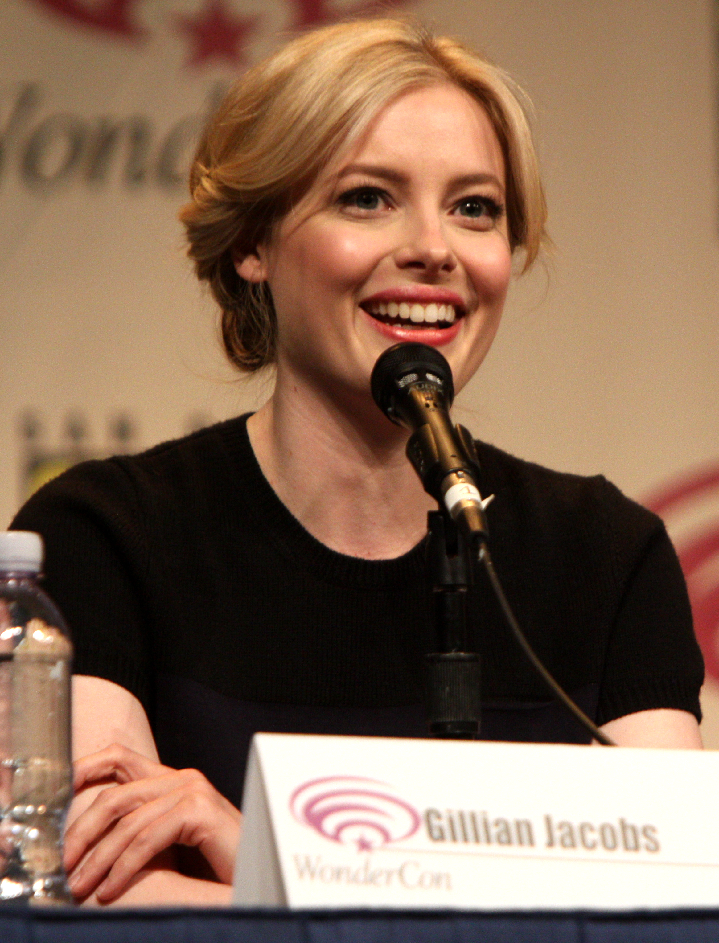 Gillian Jacobs speaking at Wondercon 2012 in Anaheim, California on March 18, 2012.